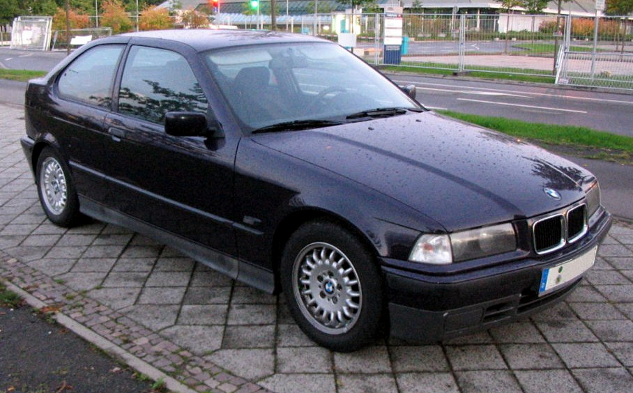 This is a BMW 316i compact (E36), built in 1995. This picture was taken in October 2005 in Leipzig. I am the author of this picture and release it under the GFDL. Phx de 15:39, 26 October 2005 (UTC) Author: Phx de 15:39, 26 October 2005 (UTC) Date of creation: October 2005 Camera: Canon A86